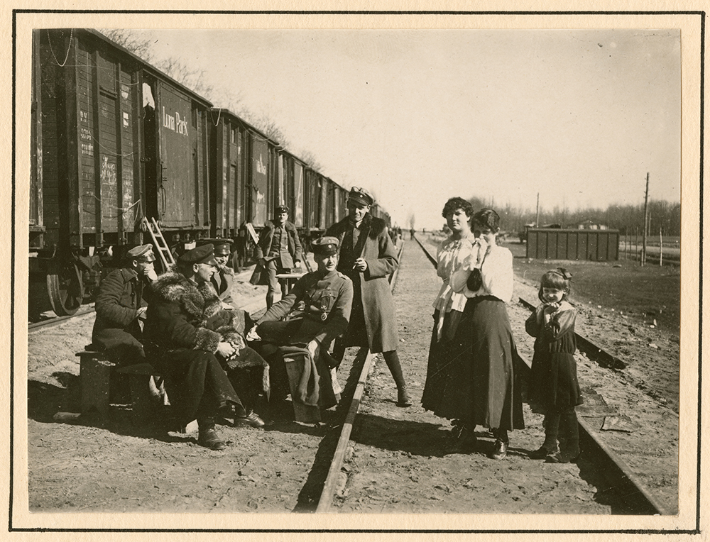 Title: [German officers conversing with women and child in rail yard] Creator: Unknown Date: Spring 1918 Part Of: Place: Kiev, Kyiv city, Ukraine Physical Description: 1 photographic print: gelatin silver; 9 x 11 cm. on 34 x 44 cm. mount File: ag1982_0048x_07e_sm_opt.jpg Rights: Please cite DeGolyer Library, Southern Methodist University when using this file. A high-resolution version of this file may be obtained for a fee. For details see the web page. For other information, . Both the full portfolio and the 263 individual photographs, scanned at a higher resolution, are available. View the full portfolio: View the individual photographs: For more information, View the